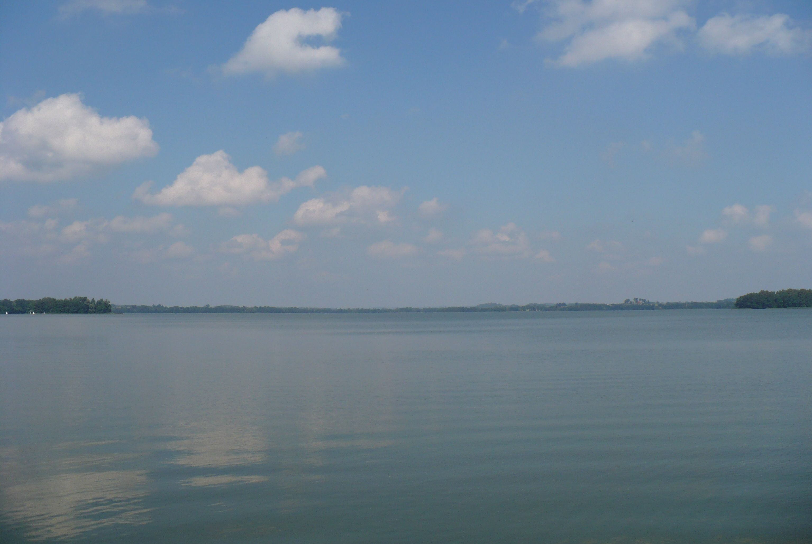 Dadaj lake